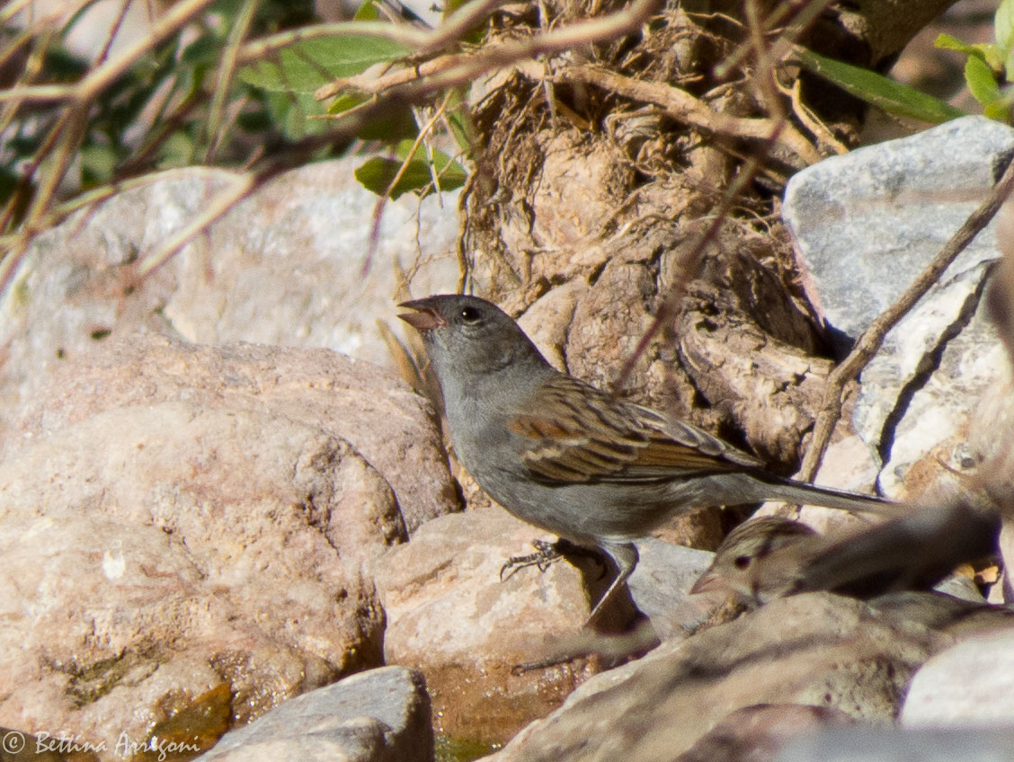 Black-chinned Sparrow (female ) | Leslie Canyon NWR | Douglas | AZ|2017-11-24|11-46-08.jpg